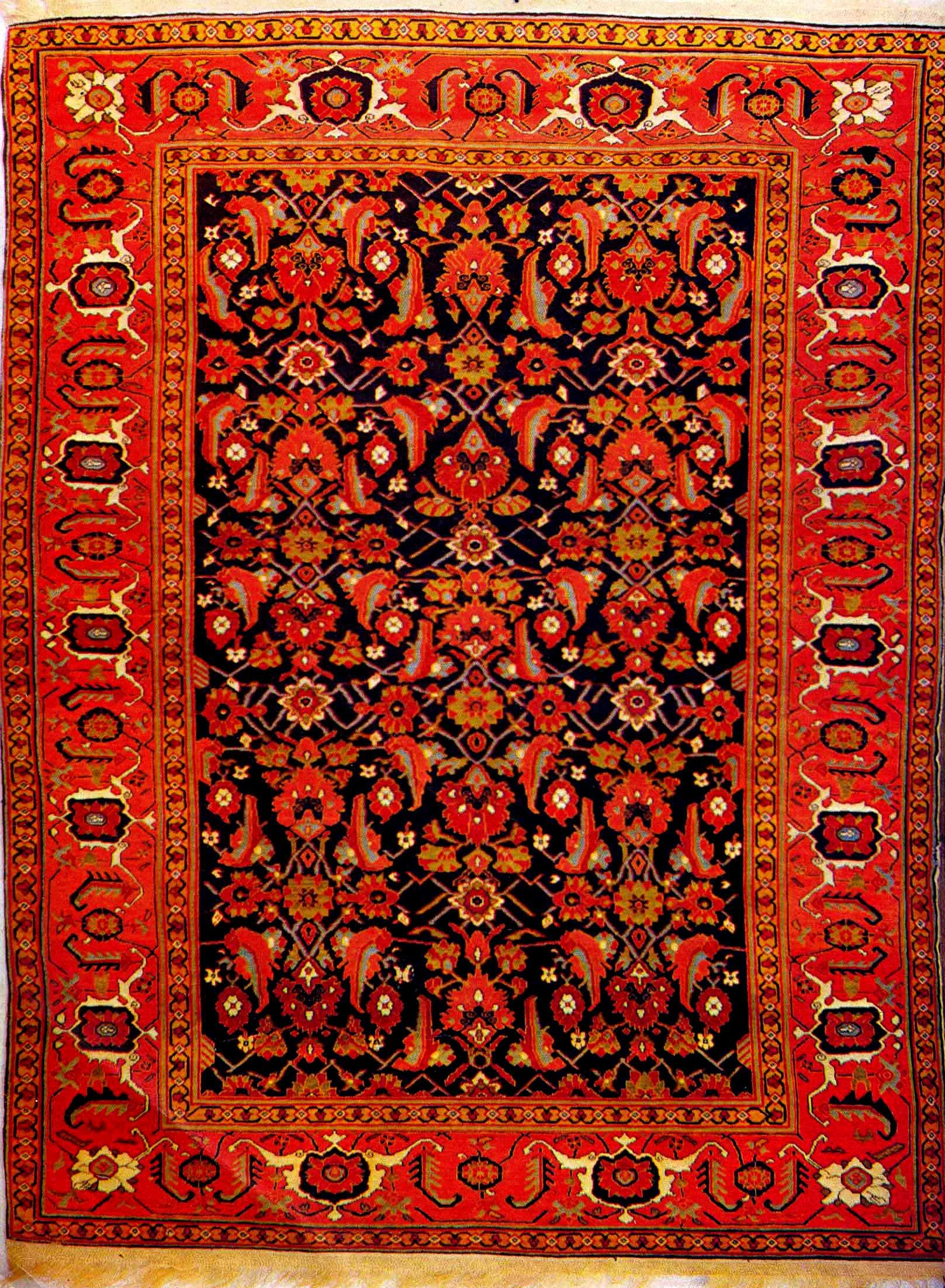 Herar-Pirabadil rug, Guba school, XVIII c.